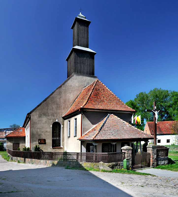 church in the village of Smardzewo, Lubusz Voivodeship, Poland